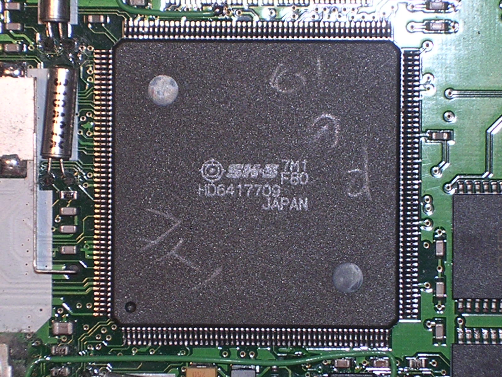 A Hitachi SH3 CPU mounted on a HP 620LX PDA.